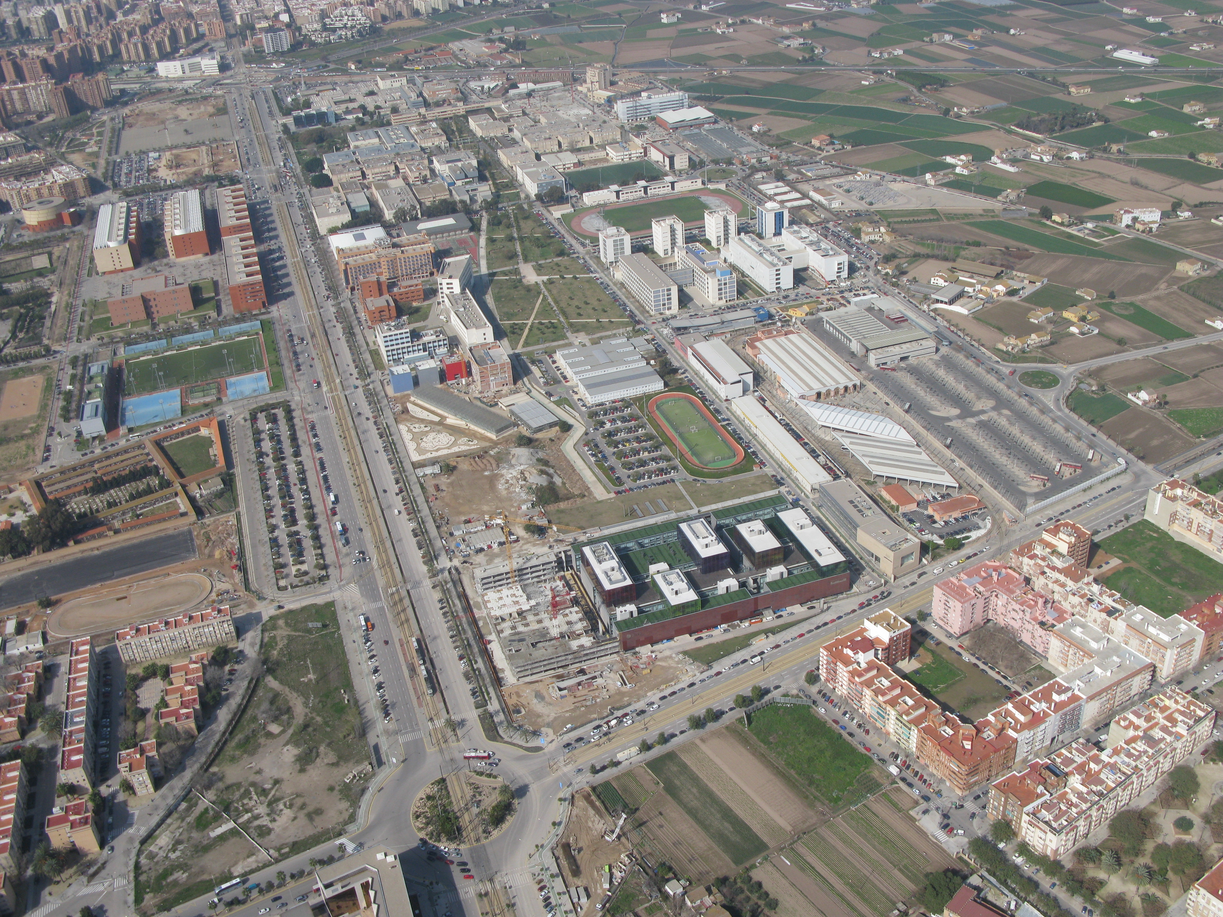 Aerial view of Universidad Politécnica de Valencia's Campus de Vera from East